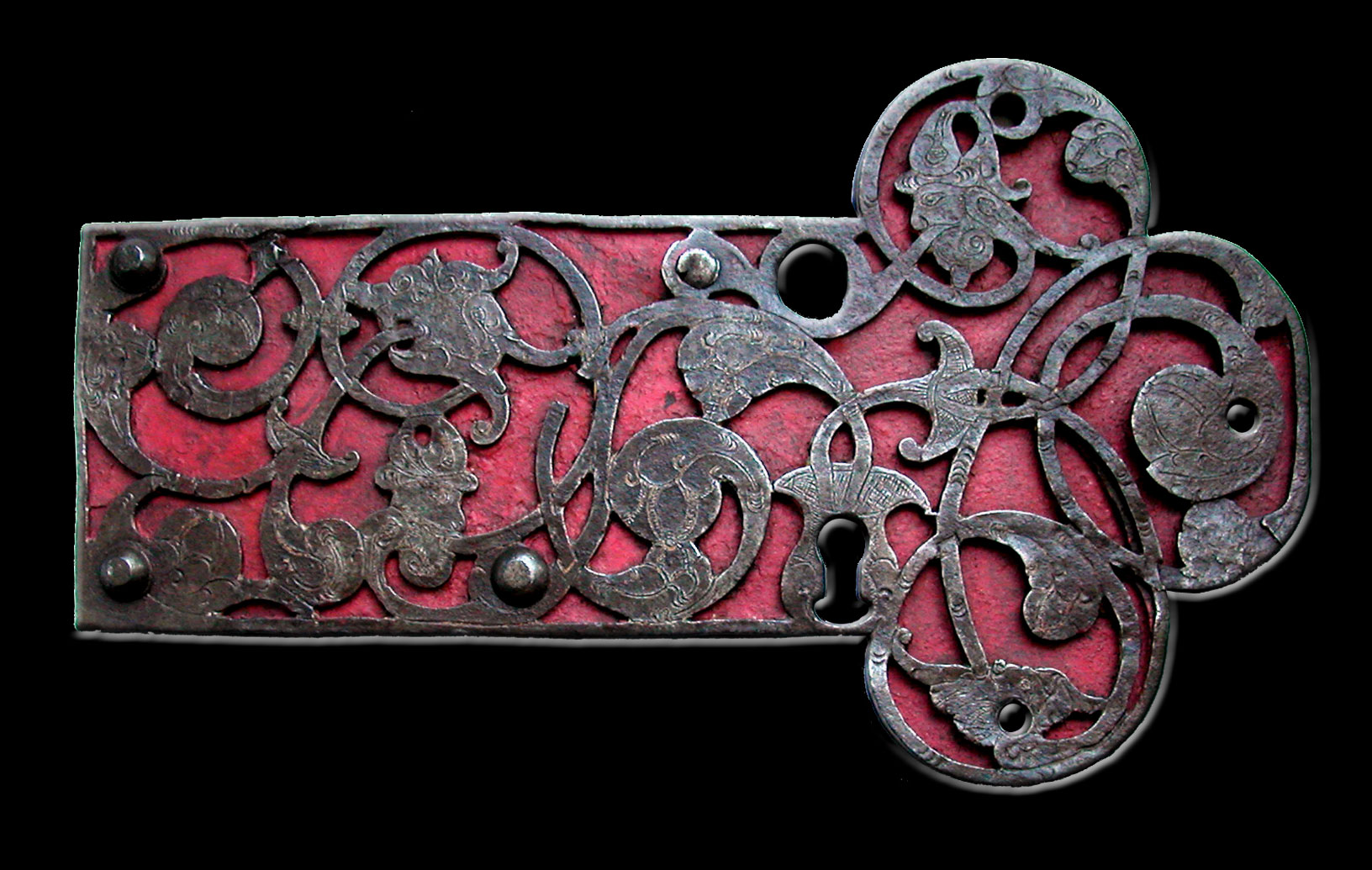 Fittings of a Renaissance castle door from the period around 1550 (12 x 7 inch). It shows the winds from the four directions of the sky by the various heads with stylized characters. Very nice recognizes you, for example, the south with the Ottoman hat and long beard.